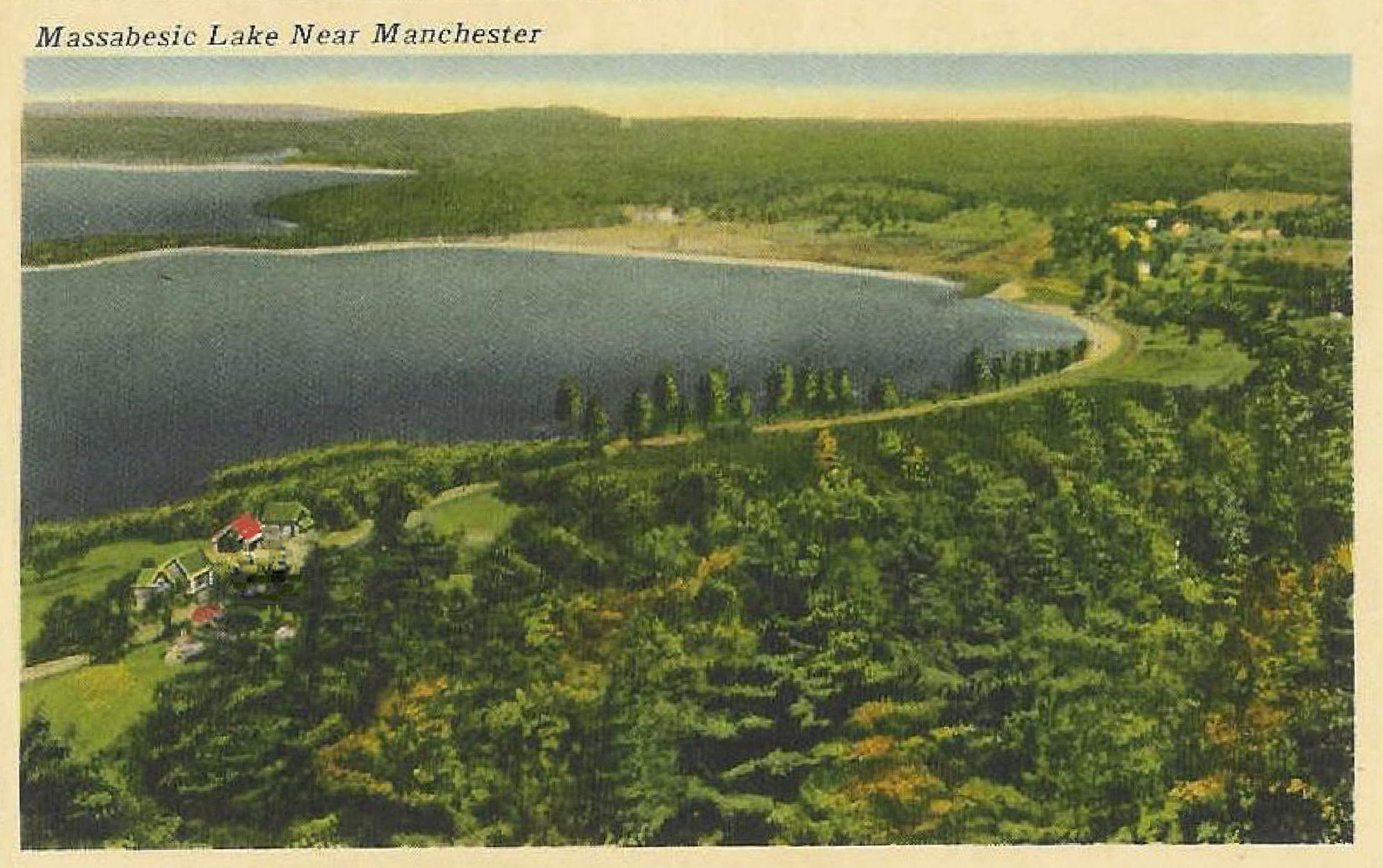 Old postcard of Lake Massabesic, New Hampshire, USA